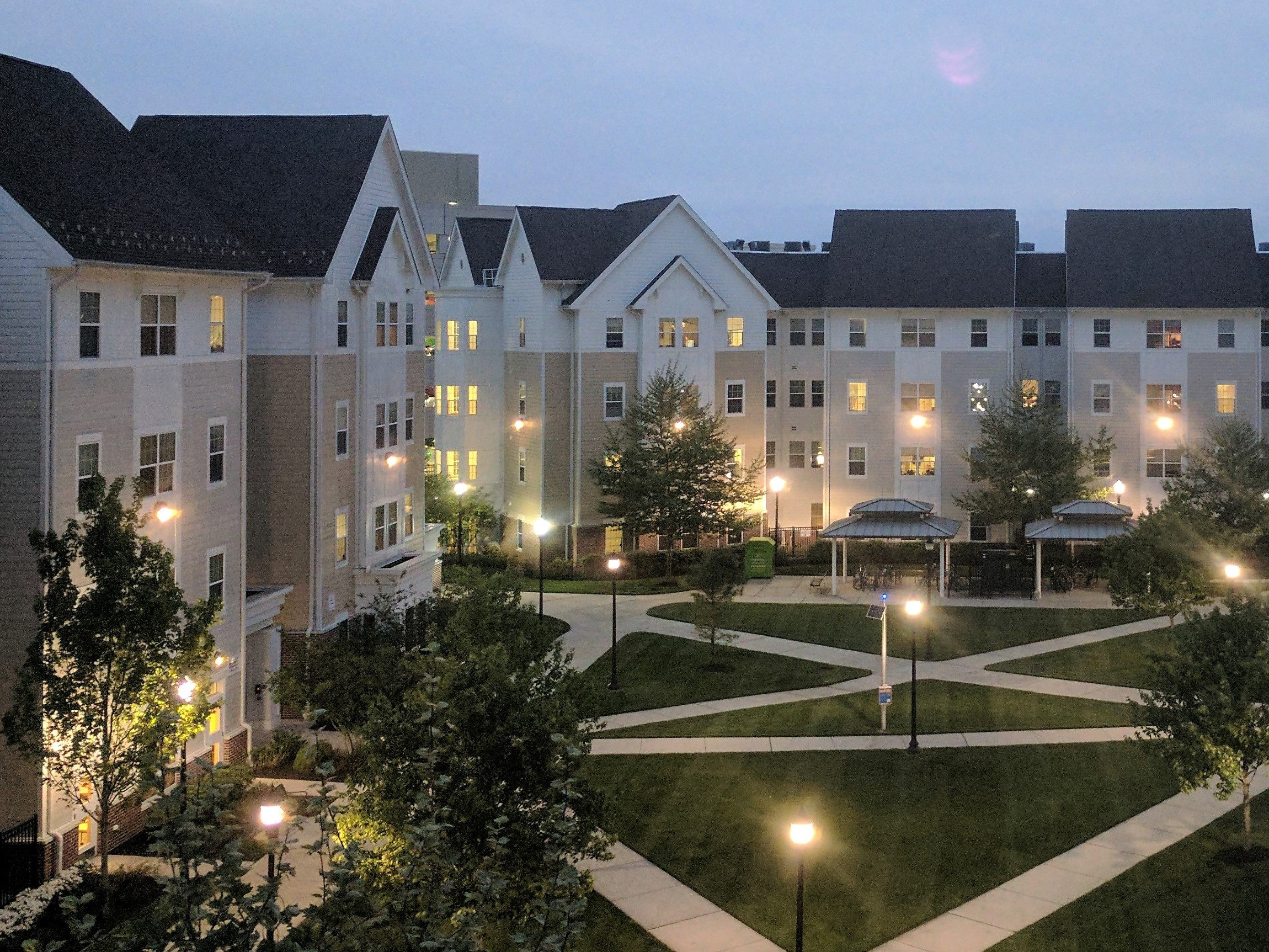 The Rowan Boulevard Student apartments in the evening. Photo taken from a 4th floor student unit looking out at building 1. Image enhanced with photo editor.